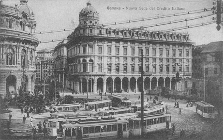 Genova, piazza De Ferrari with tram